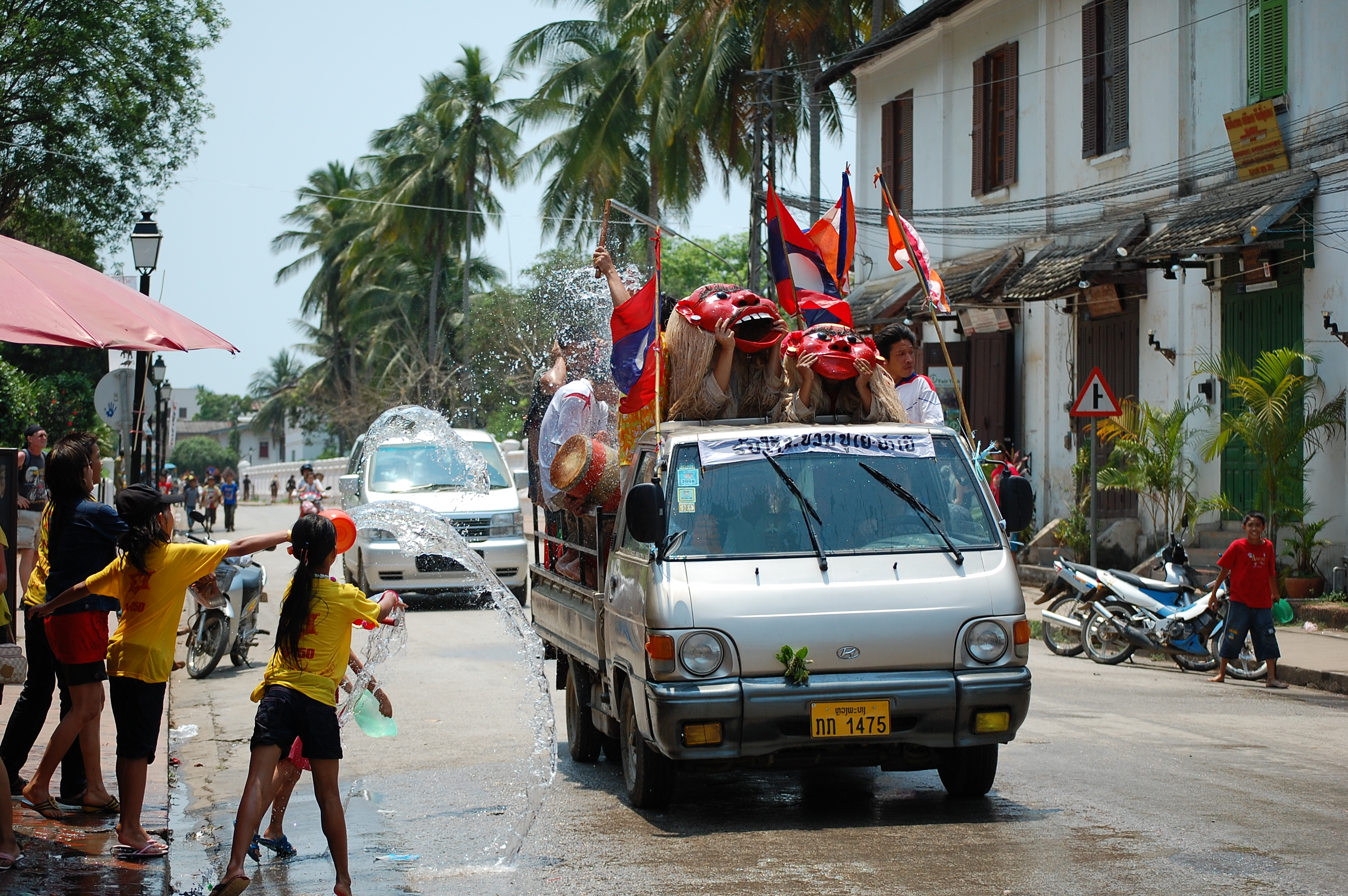 Even the parade costumes were fair game. Nobody was safe from getting completely drenched.